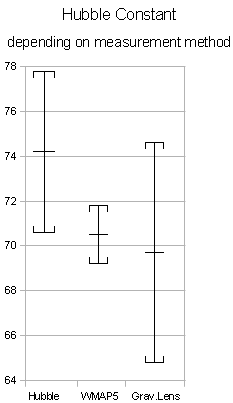 Hubble constant in the most recent precision compared for different measurement methods; the unit on the vertical axis is (km/s)/Mpc